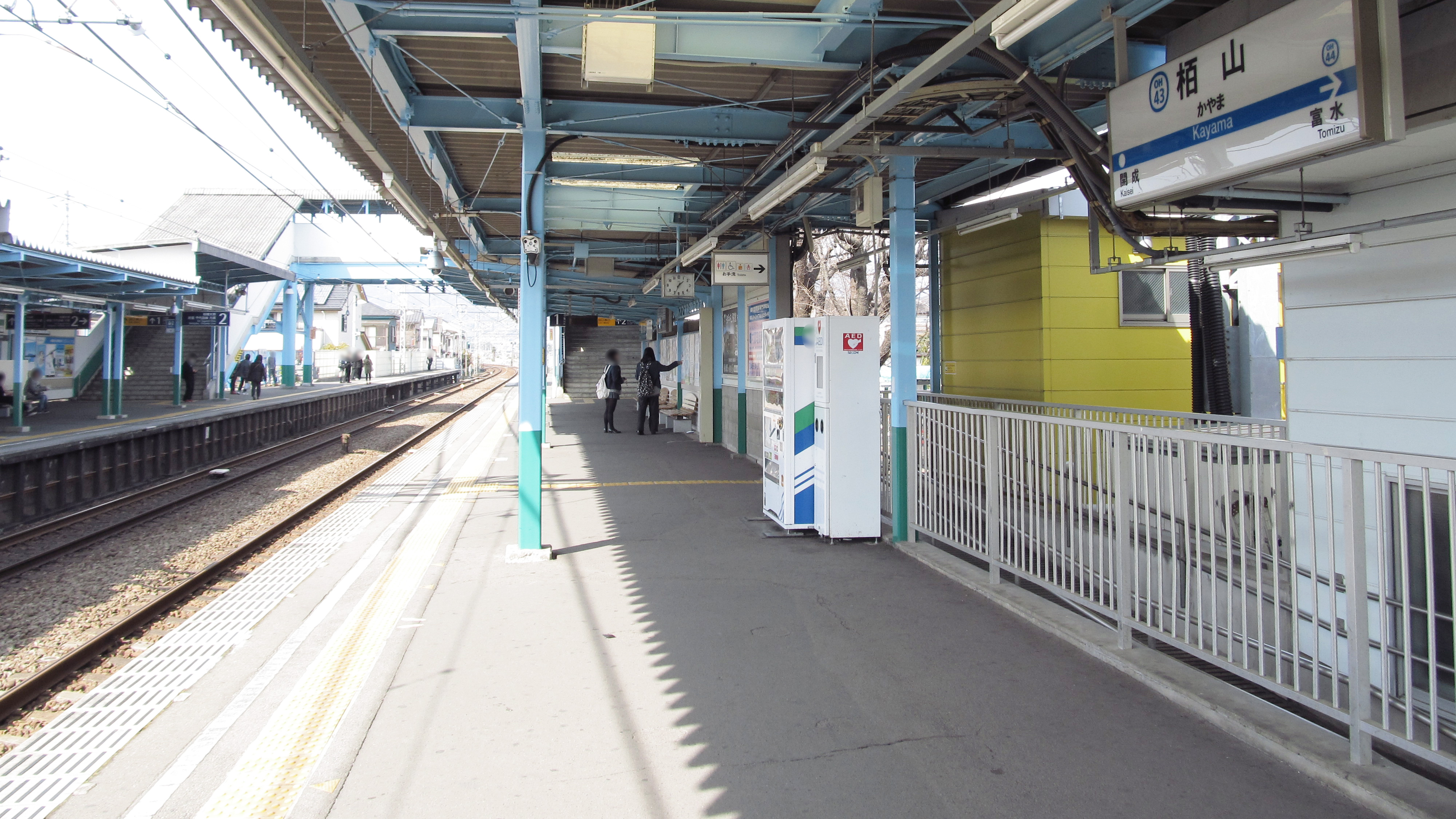 The platforms at Kayama Station on the Odakyū Electric Railway Odawara Line in Odawara city, Kanagawa, Japan